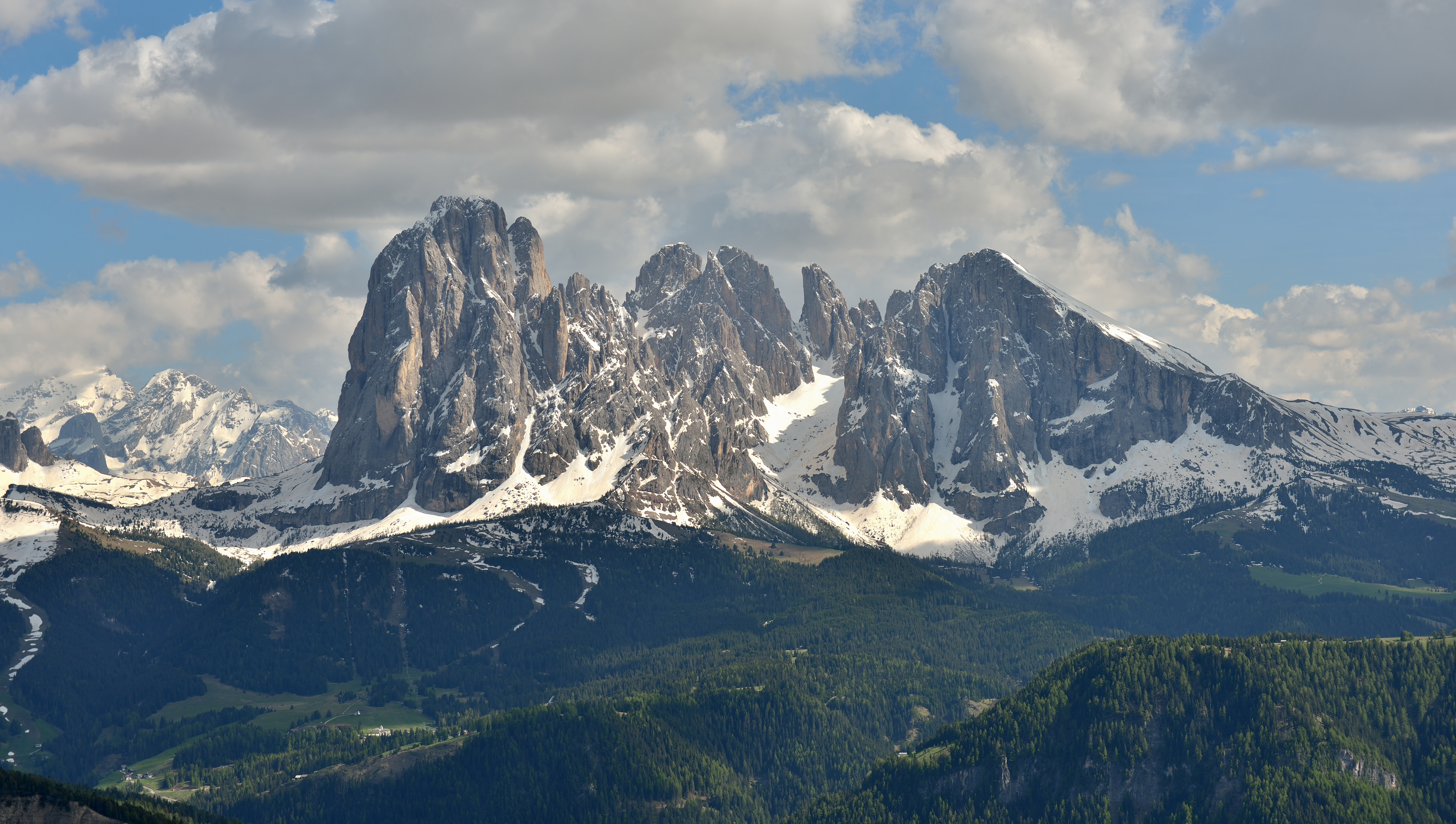 Val Gardena with the Saslonch and Sella group in the Dolomites from Resciesa, South Tyrol